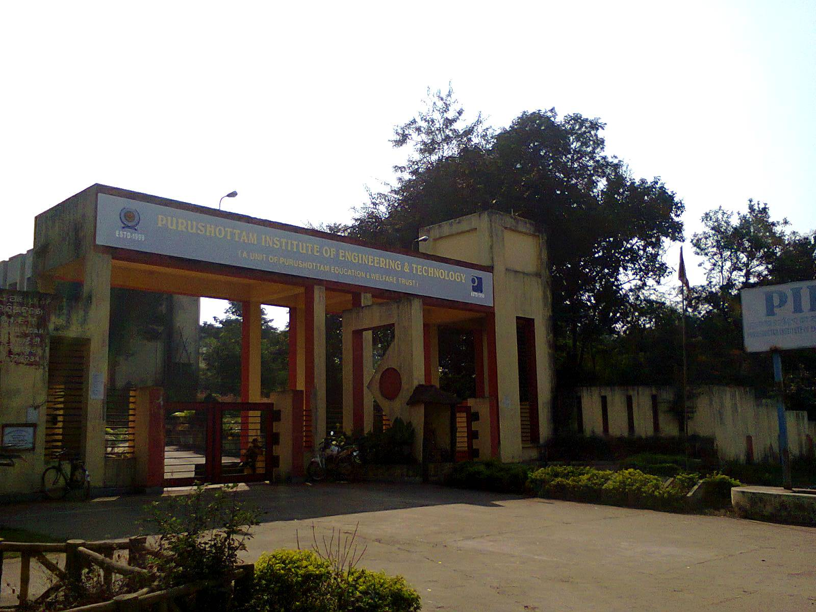 Main Gate PIET (Courtesy December 2013 New Uploads)